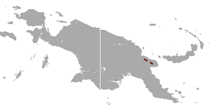 Mountain Pademelon (Thylogale lanatus) range